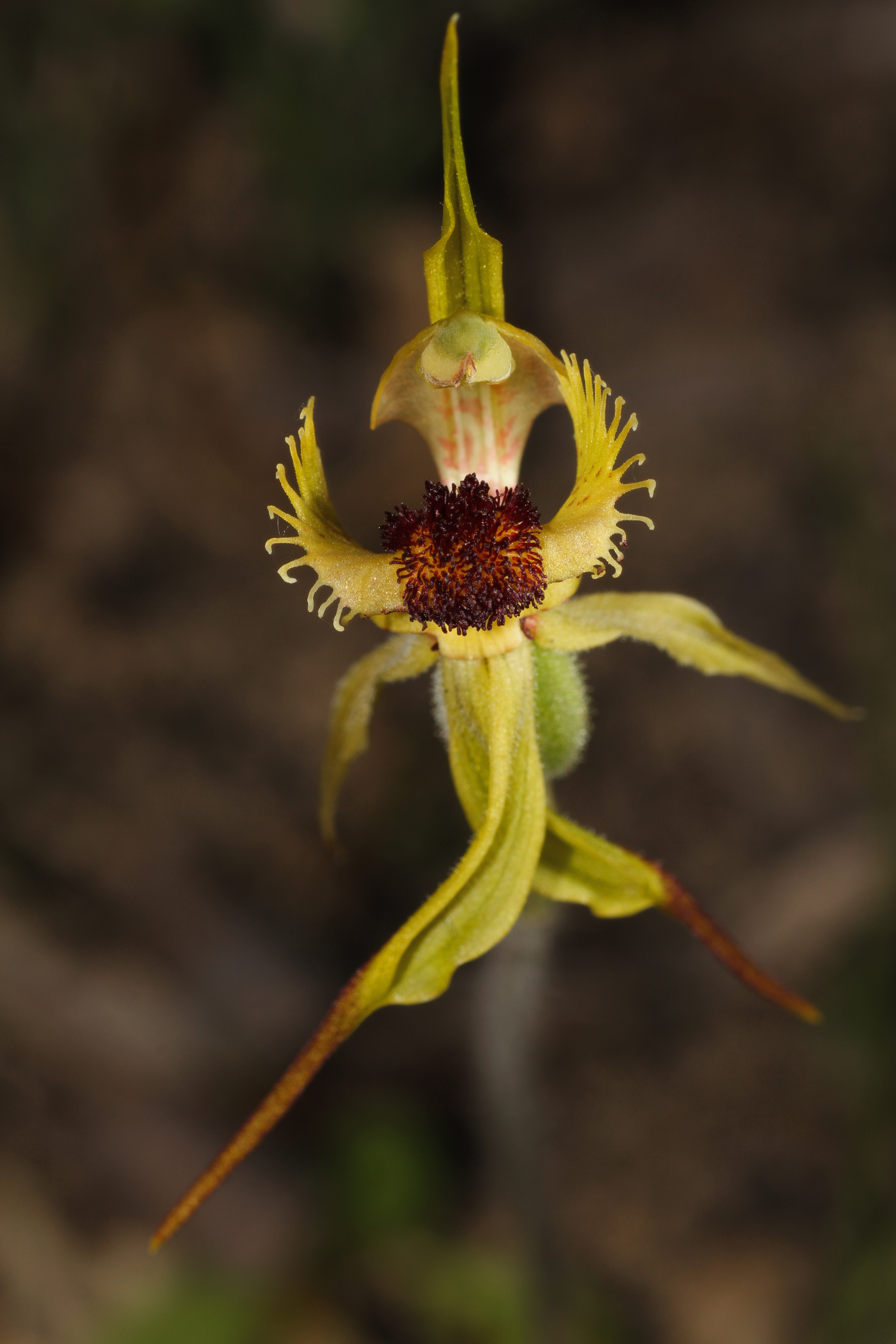 Caladenia crebra; 'Arrowsmith' Spider Orchid Enneaba western Australia